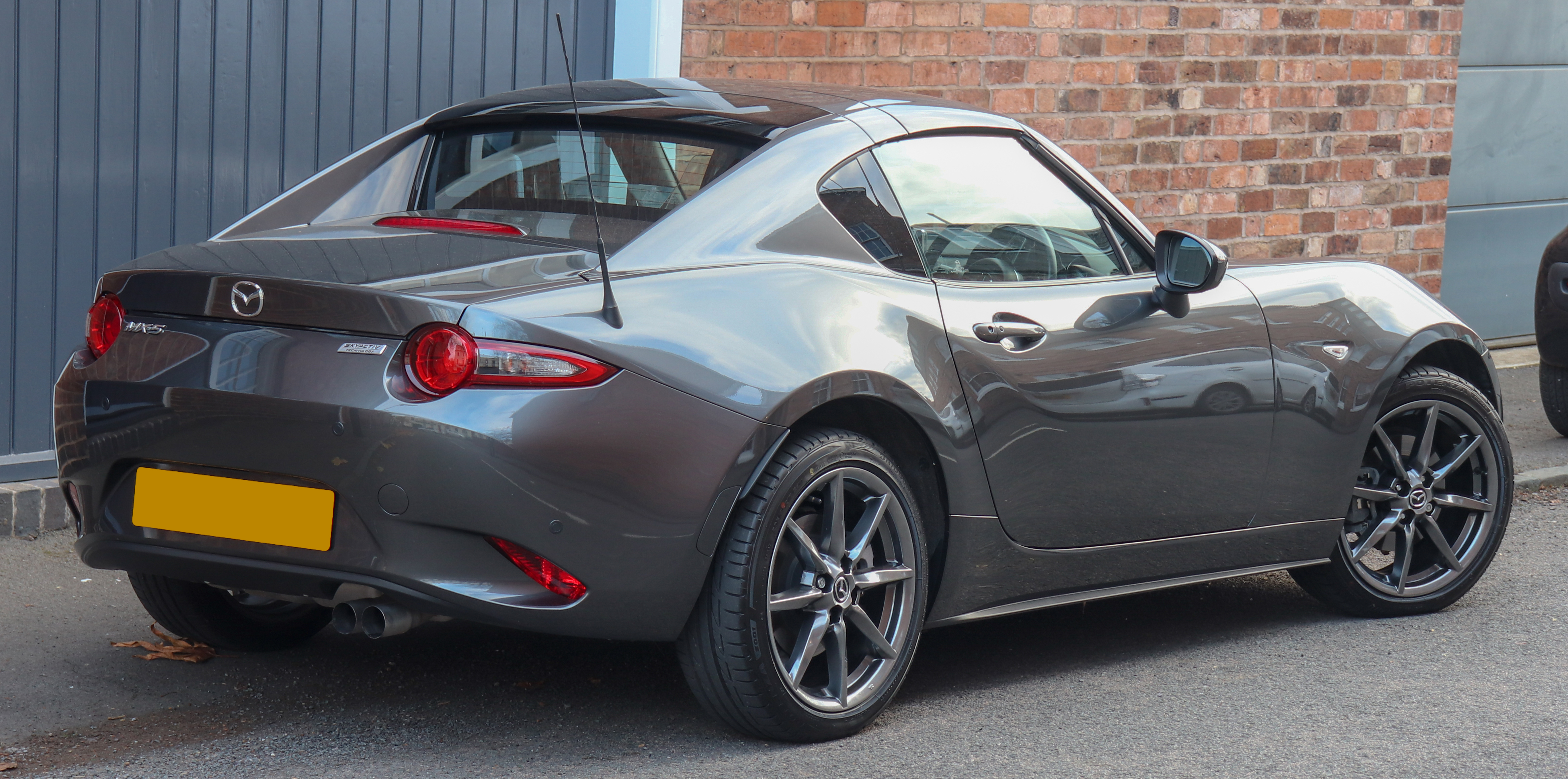 2017 Mazda MX-5 RF Sport NAV 2.0 Rear Taken in Leamington Spa